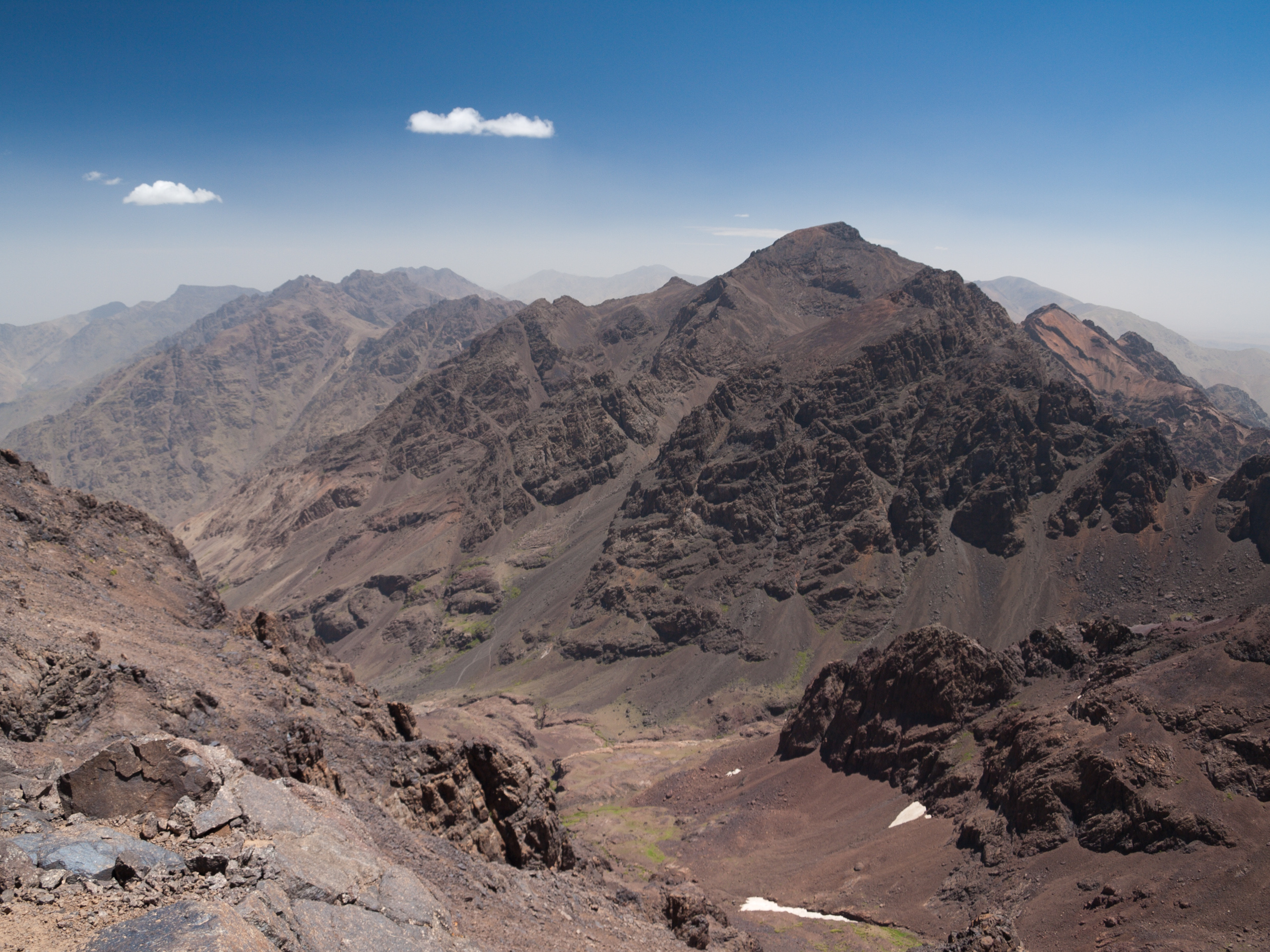 Toubkal – view from Afella peak